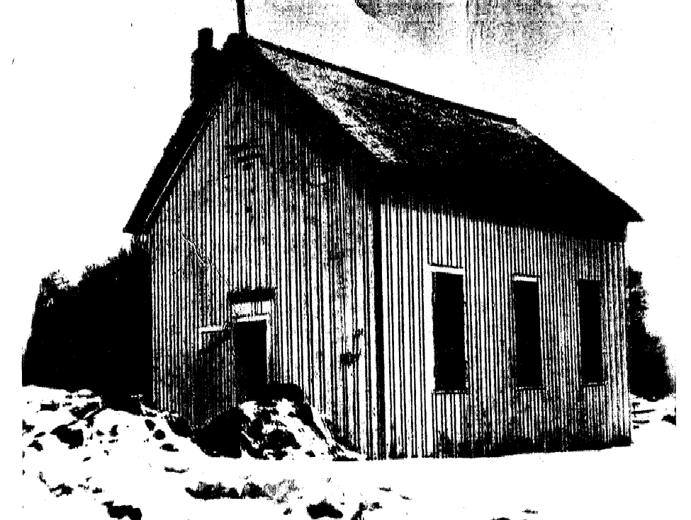 Picture of Howard, Wisconsin Town Hall - 1874